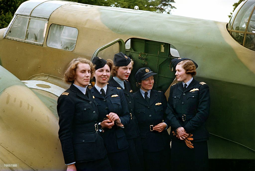 Lettice Curtis, Jenny Broad, Wendy Sale Barker, Gabrielle Patterson and Pauline Gower in front of an Airspeed Oxford trainer. All of the Air Transport Auxilary in 1942